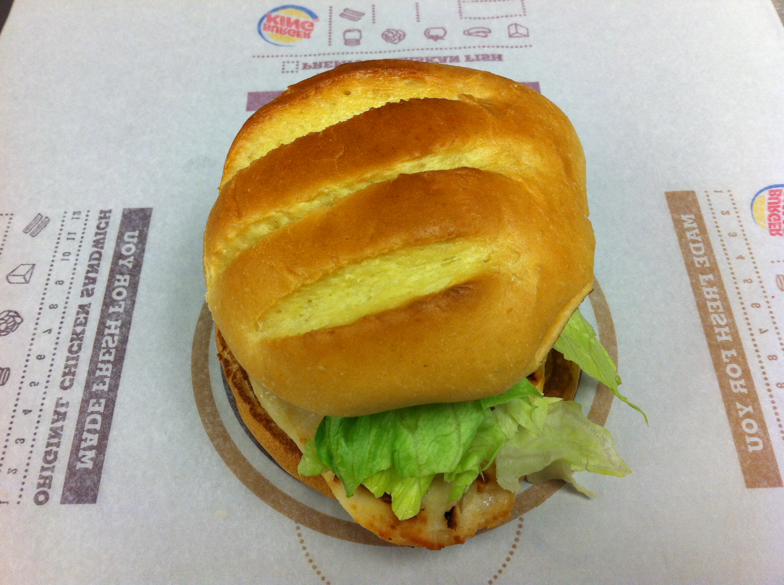 An Example of the TenderGrill Sandwich